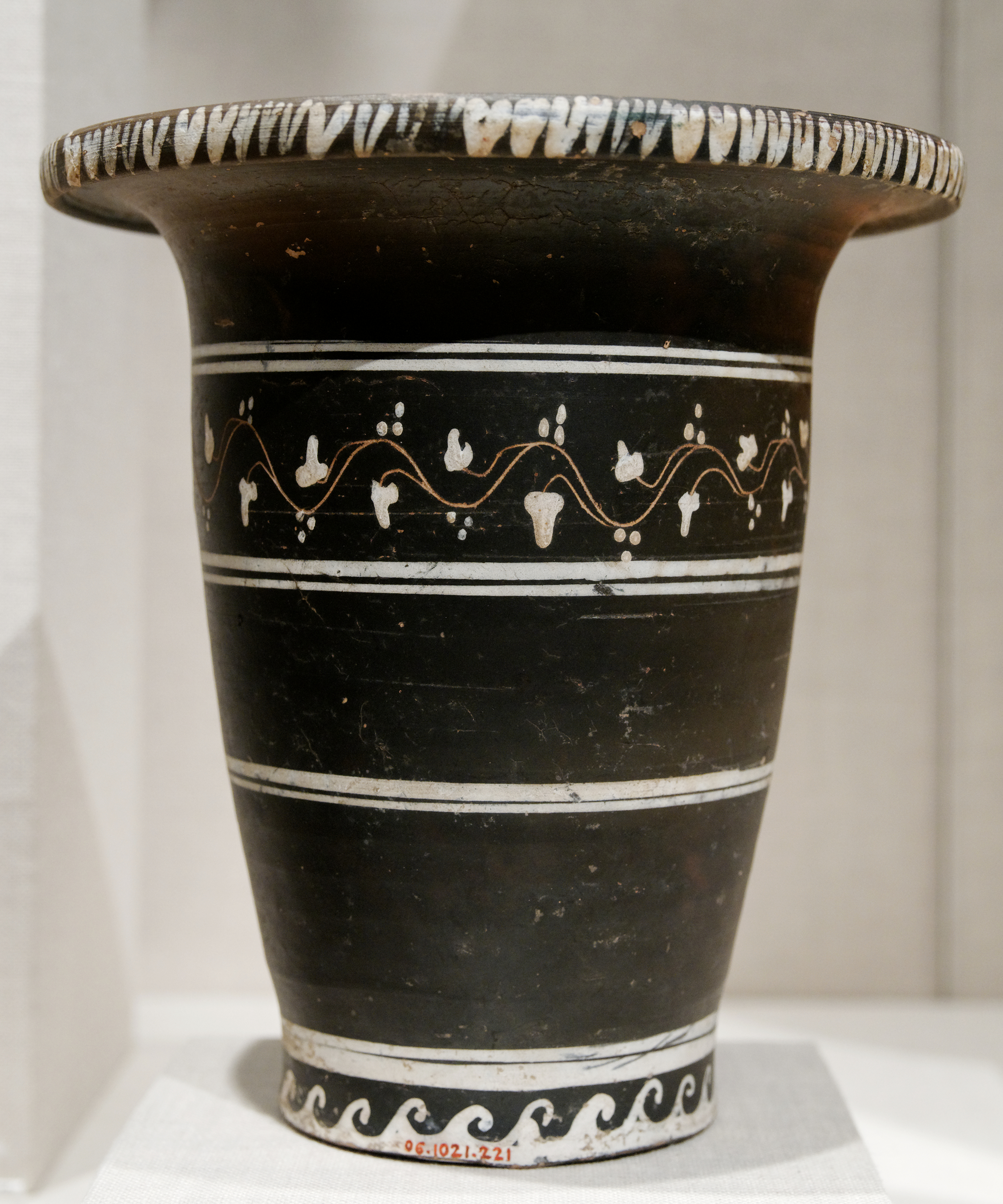 Ivy tendril. Apulian kalathos in Gnathian style.